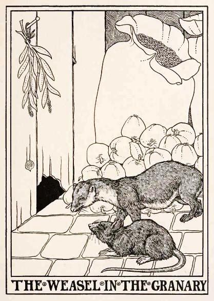 An illustration by Percy Billinghurst from 100 Fables of La Fontaine (London c.1900)